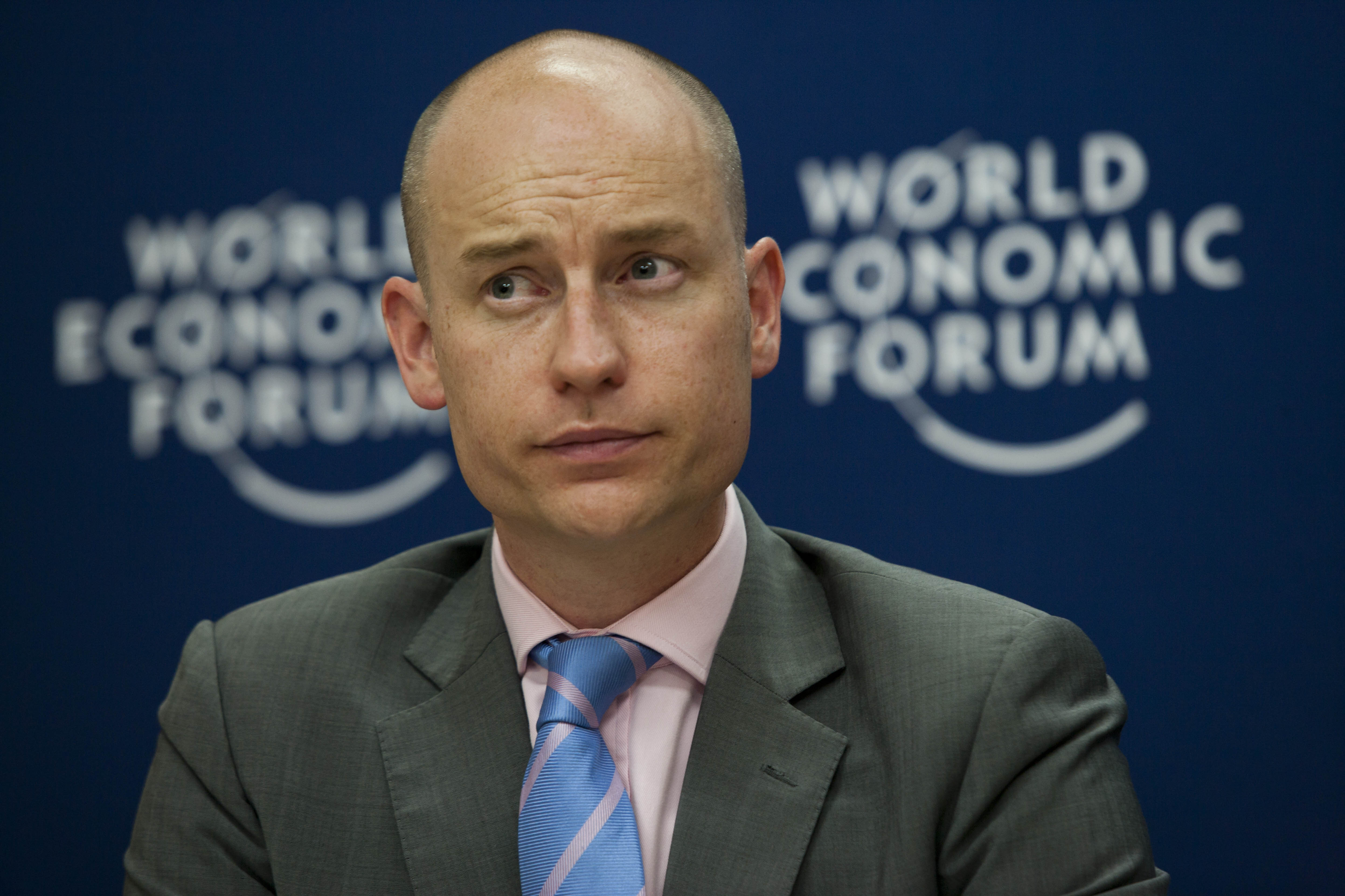 VIENNA/AUSTRIA, 6JUN11 - Stephen Kinnock, Head of Europe, World Economic Forum captured during a press conference at the World Economic Forum on Europe and Central Asia held in Vienna, Austria, June 6, 2011. Copyright World Economic Forum ( by Benedikt Loebell